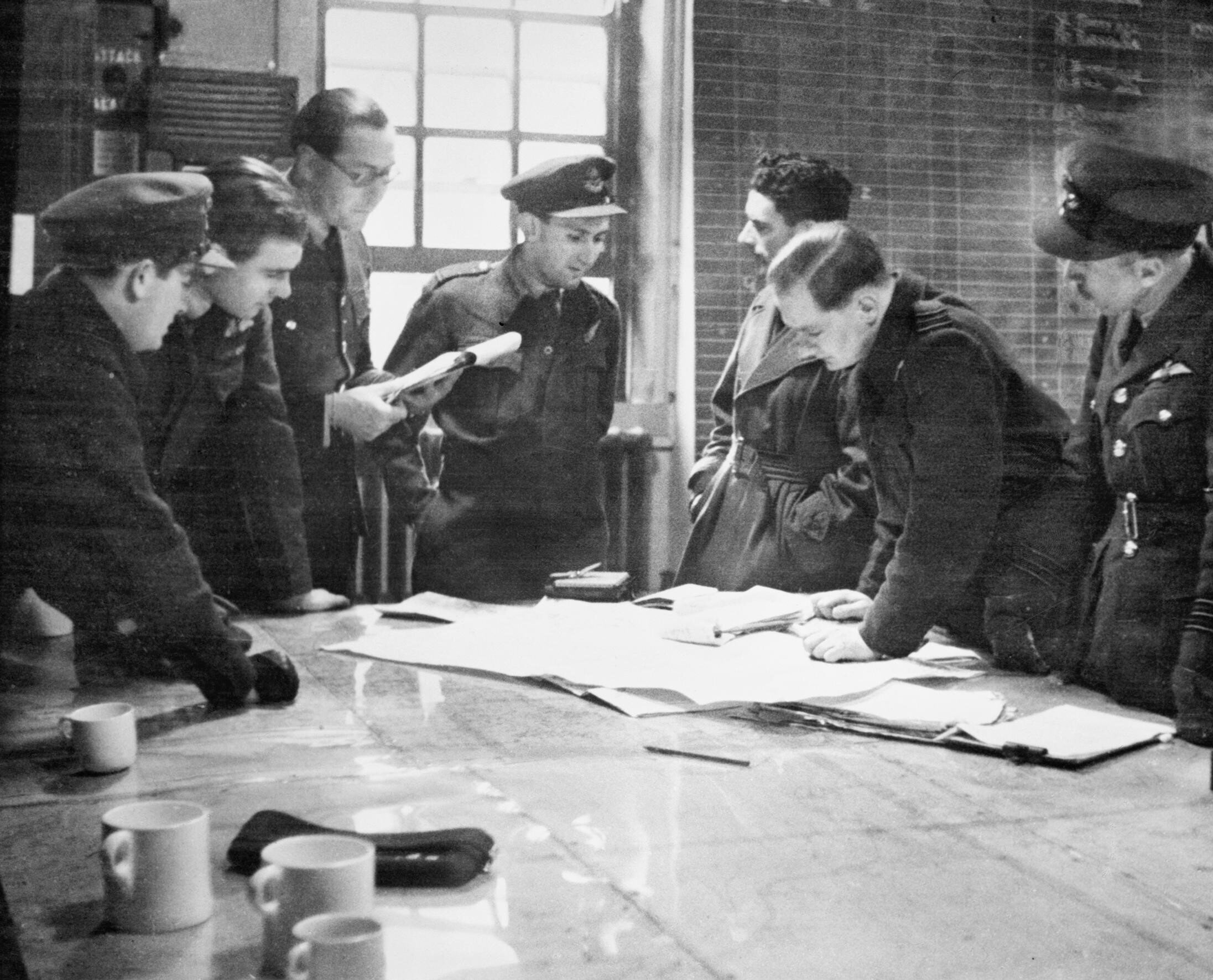 Operation OYSTER, the daylight attack on the Philips radio and valve works at Eindhoven, Holland, by No. 2 Group. De Havilland Mosquito crews gather for a final briefing at Marham, Norfolk, before take off. Standing second from left is Wing Commander H I Edwards VC, Commanding Officer of No. 105 Squadron RAF and leader of the Mosquito force on the raid.